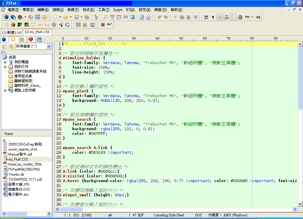 PSPad